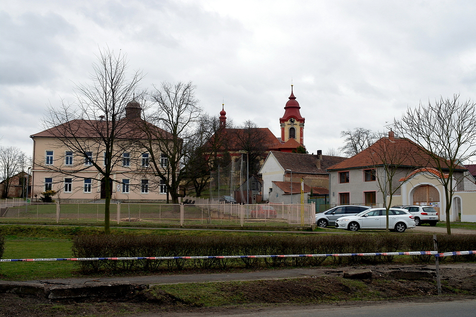 Village square, Ledčice, Mělník District. View from the pond southward. Elementary school on the left, houses 86 and 14 Ledčice on the right, church of St. Wenceslas in the background.